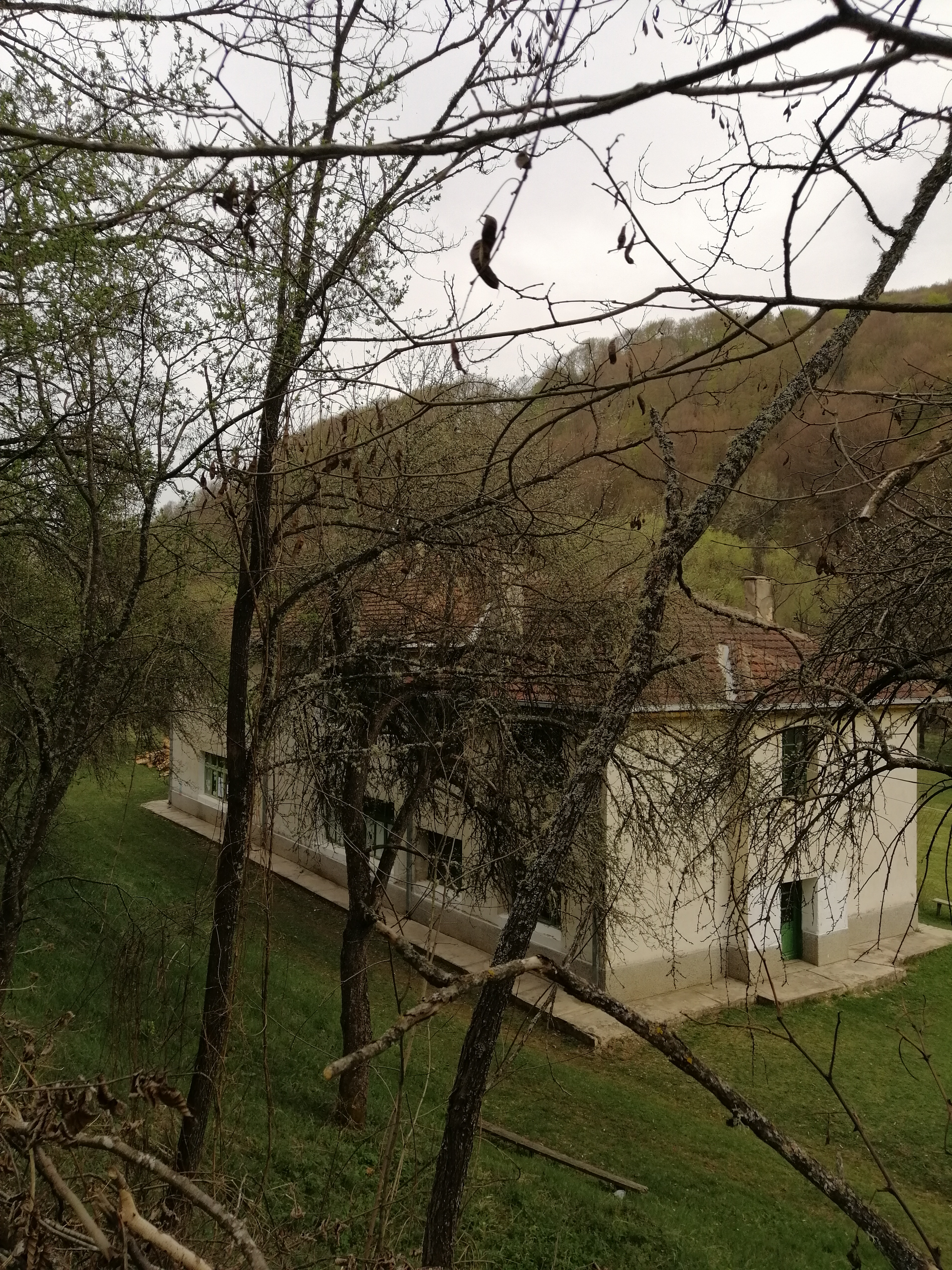 Primary school in the village Ogut